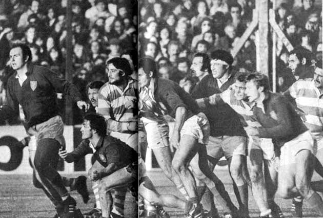 A scene of the first test at Ferro C. Oeste Stadium.